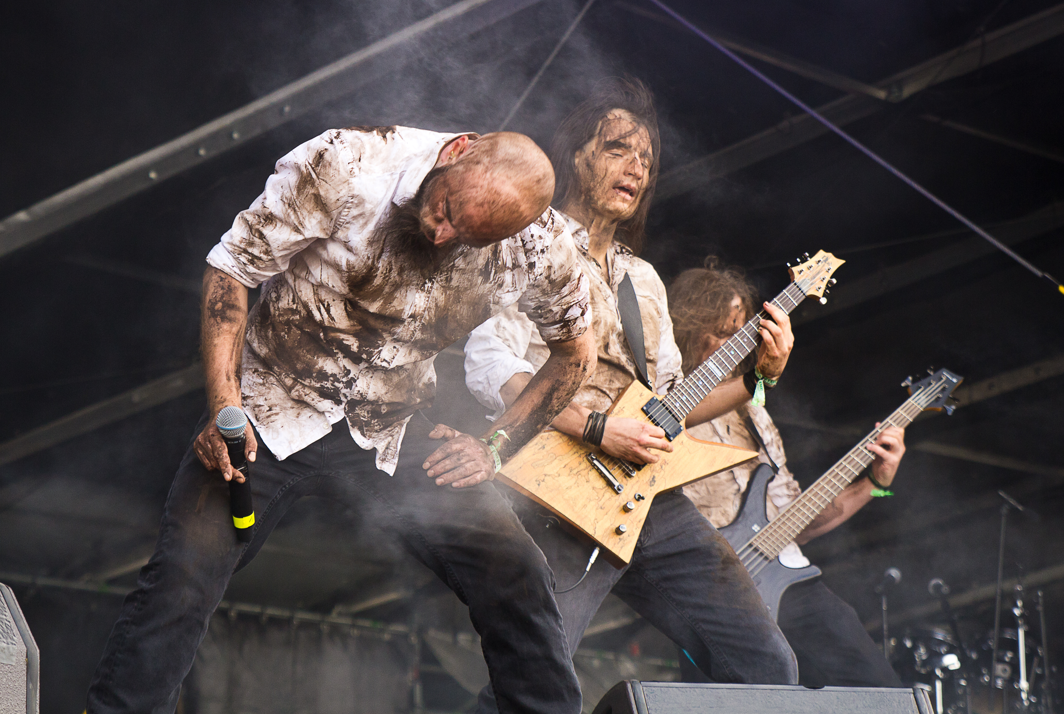 The German pagan metal band Finsterforst at the Rockharz Open Air 2015 in Ballenstedt/Germany.